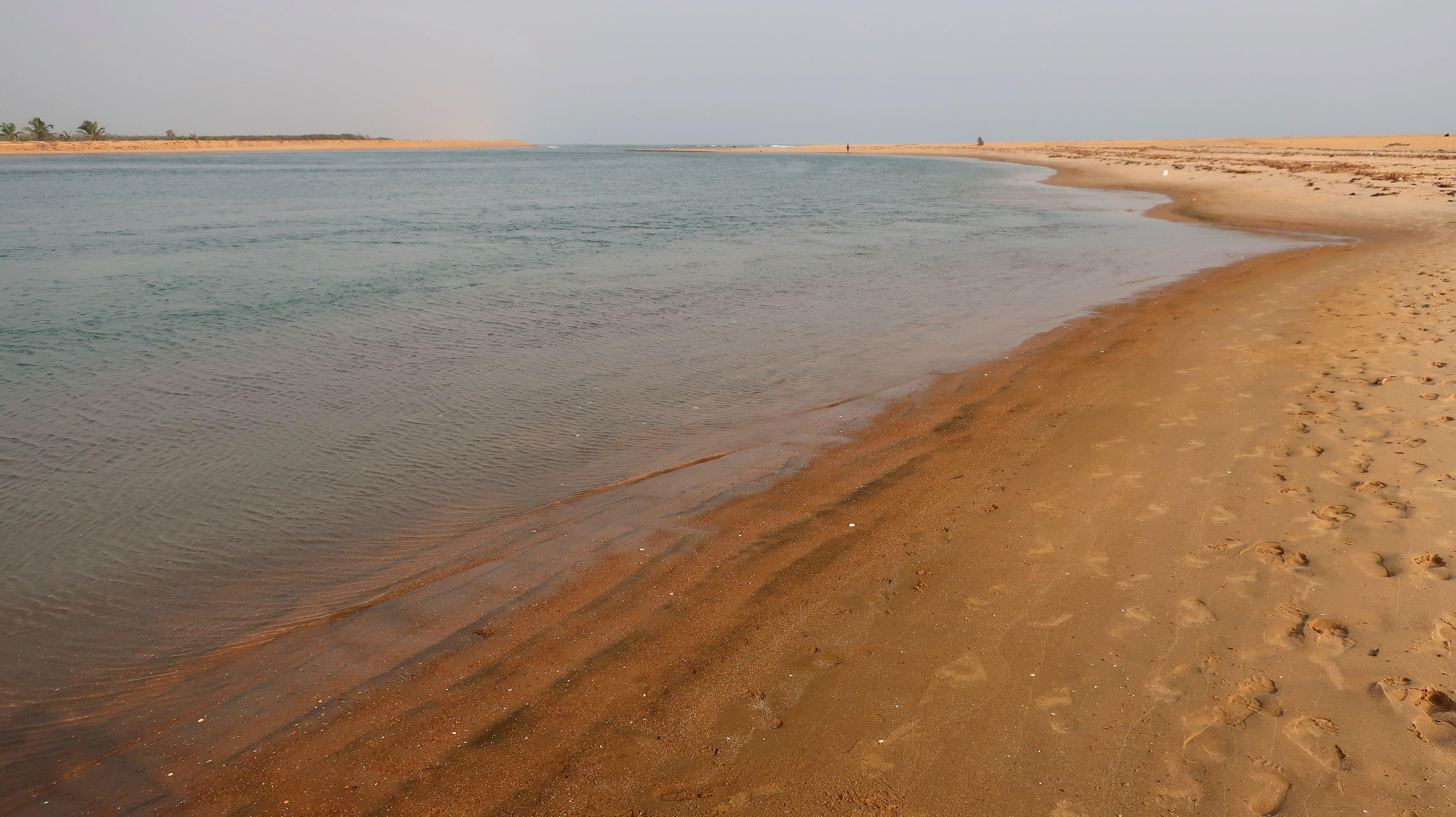 Mono river estuary, sand strand view to the Atlantic Ocean in Avloh, Grand-Popo, Benin